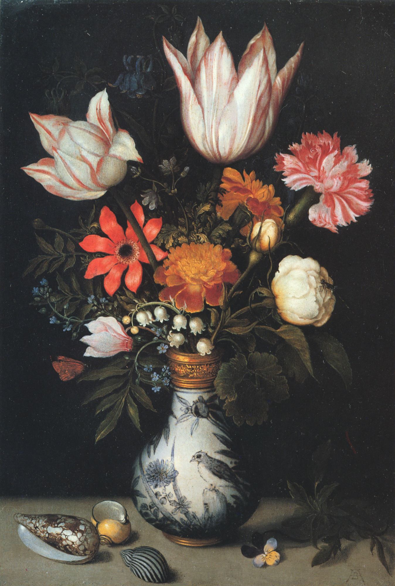 Flower still life